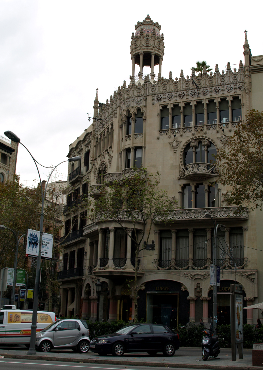 Casa Lleó Morera - Catalan Modernisme (1864, Sociedad Fomento del Ensanche - 1905, Lluís Domènech i Montaner)